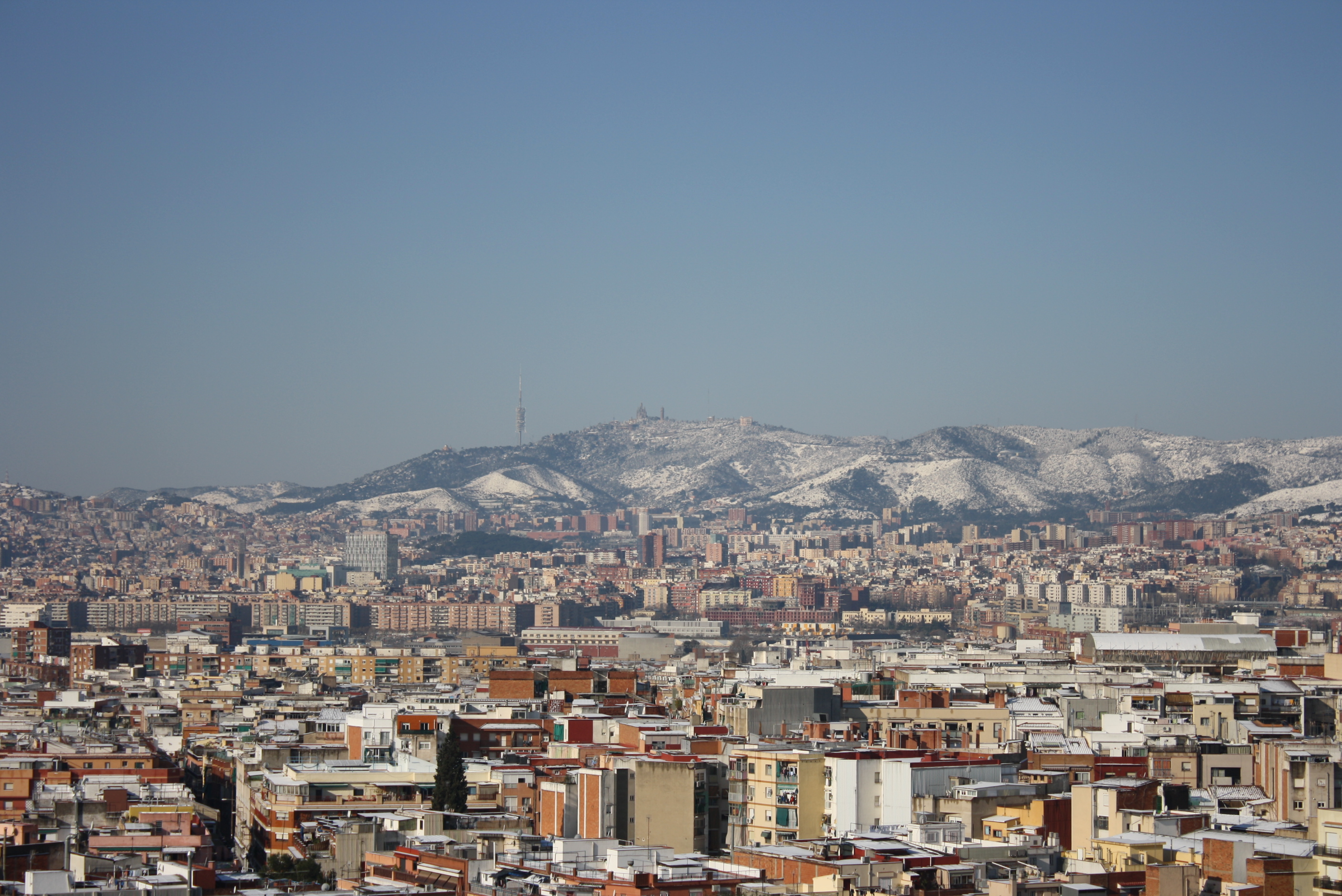 Barcelona in the morning of 9th March 2010, after the strongest snowstorm of the past 20 years